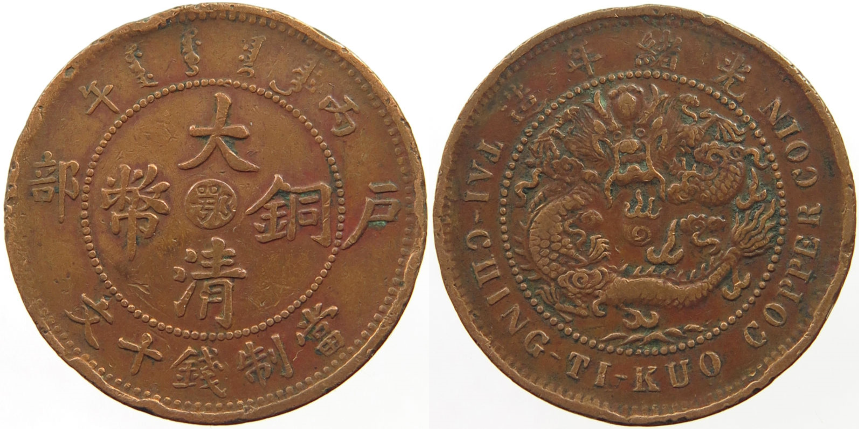 A machine-struck copper-alloy coin from the Manchu Qing Dynasty.